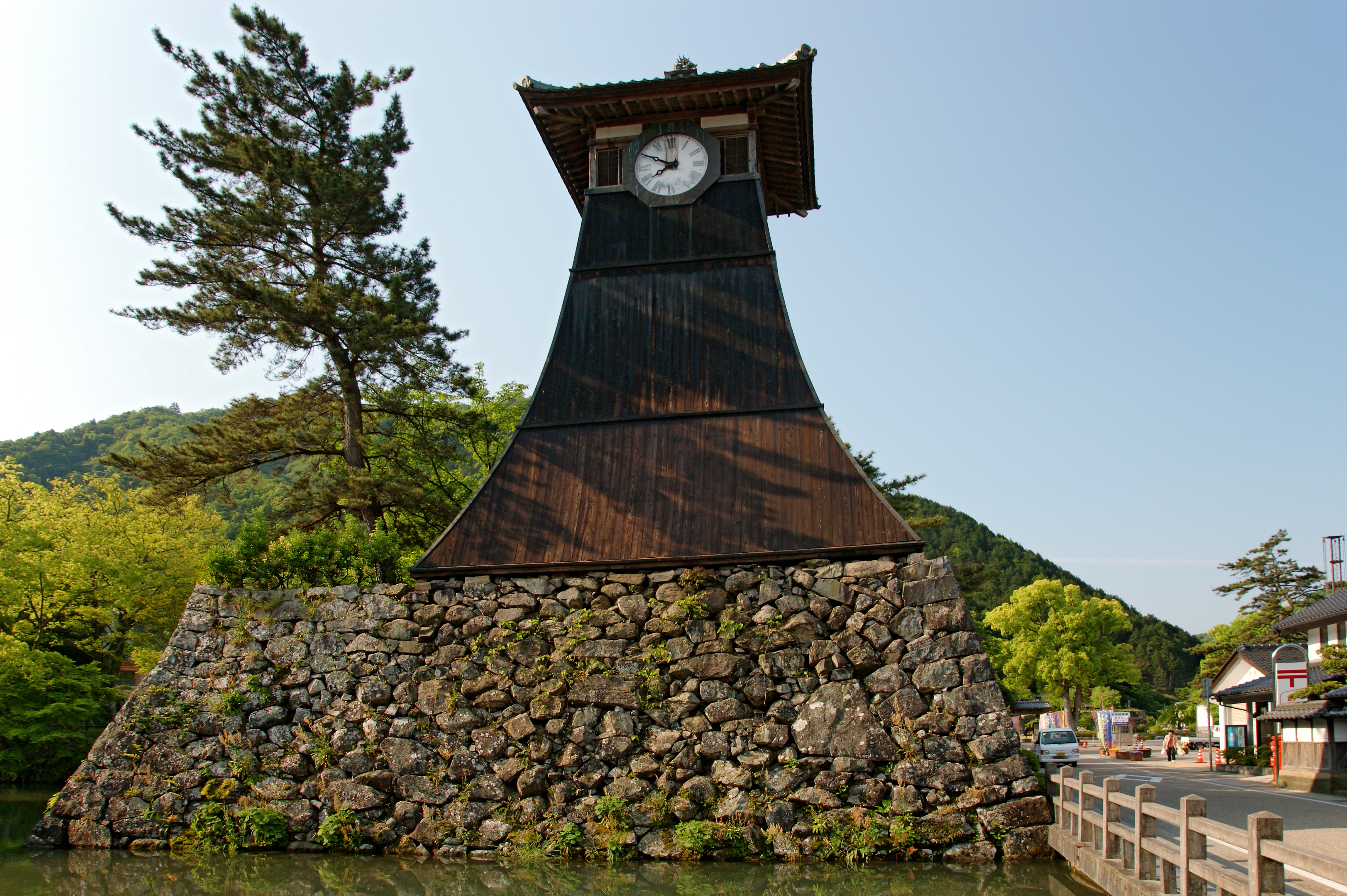 Shinkoro in Izushi, Toyooka, Hyogo prefecture, Japan